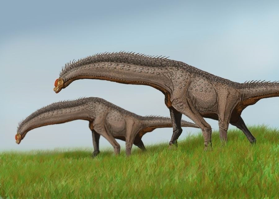 Isisaurus colberti_in_landscape - reconstruction autor - Bogdanov